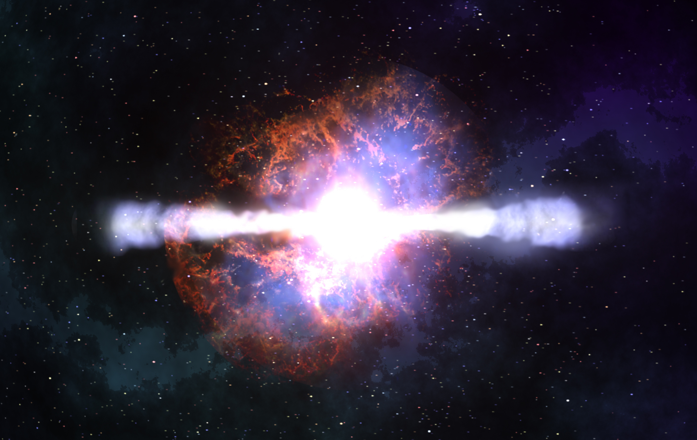 Still from a NASA computer-generated animation showing black hole formation.